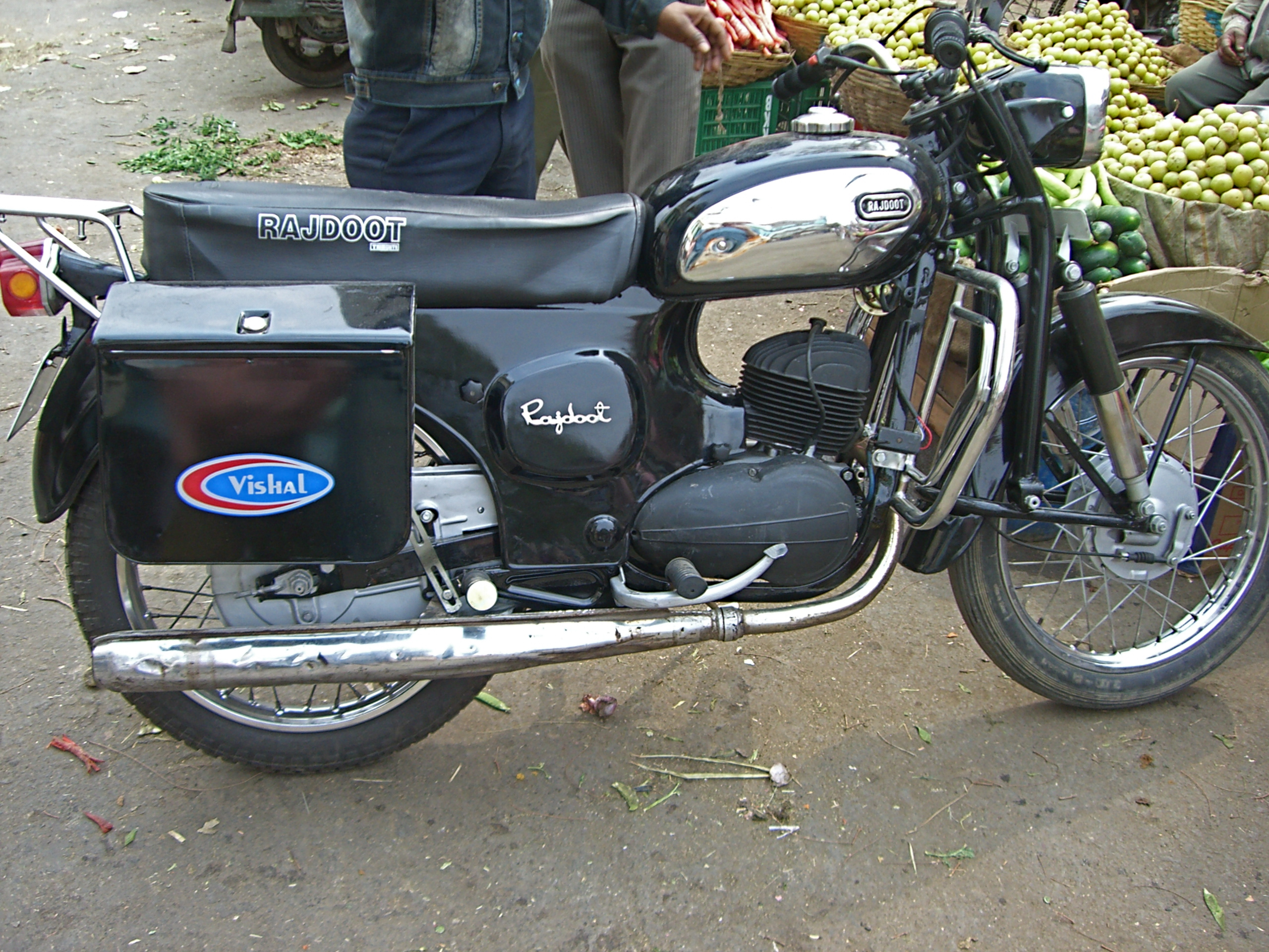 Escorts Gruoup's Rajdoot motorcycle - the Indian copy of the Polish SHL M11, 175 ccm.